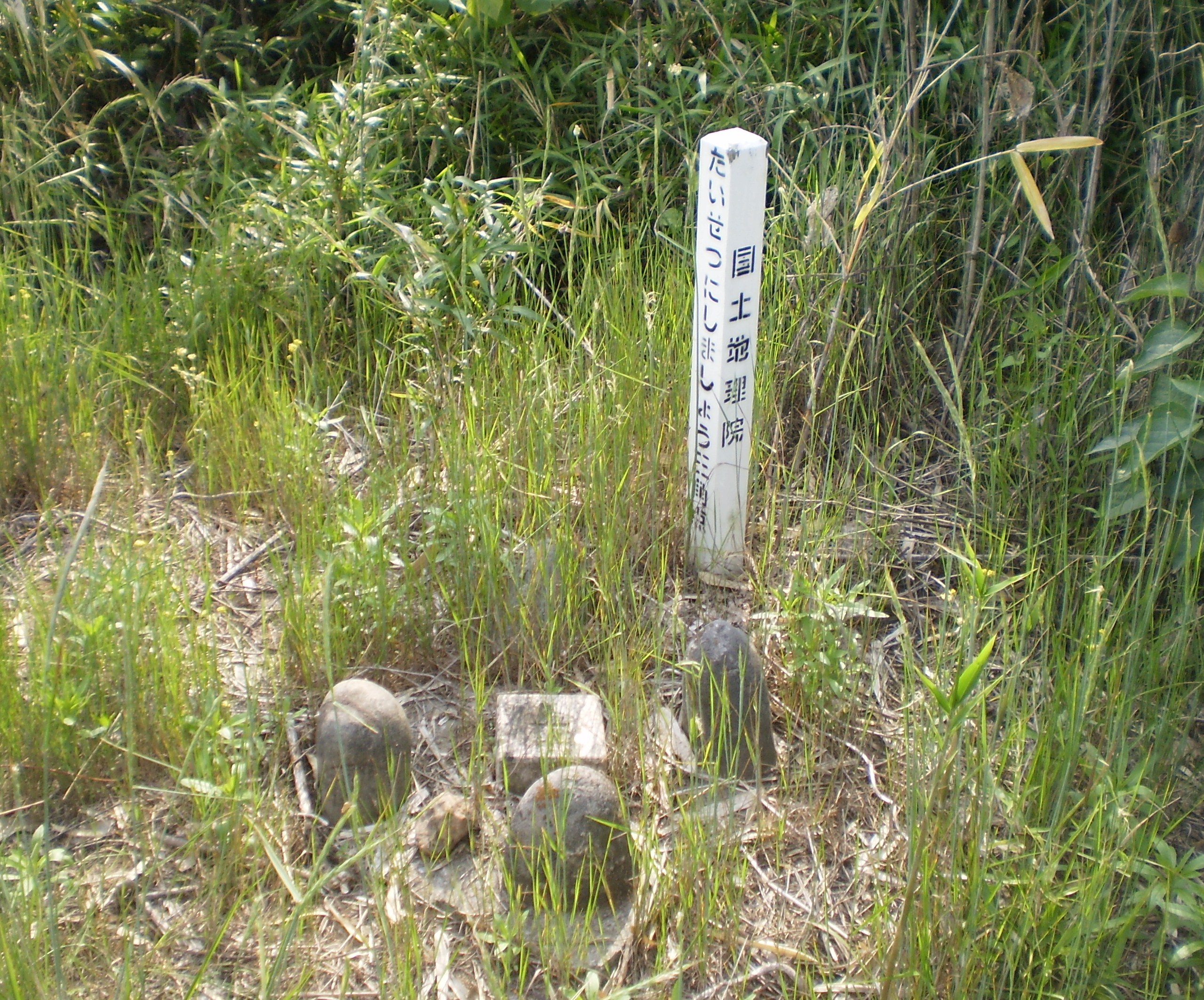 Trig point of the top of Sagiyama Kofun